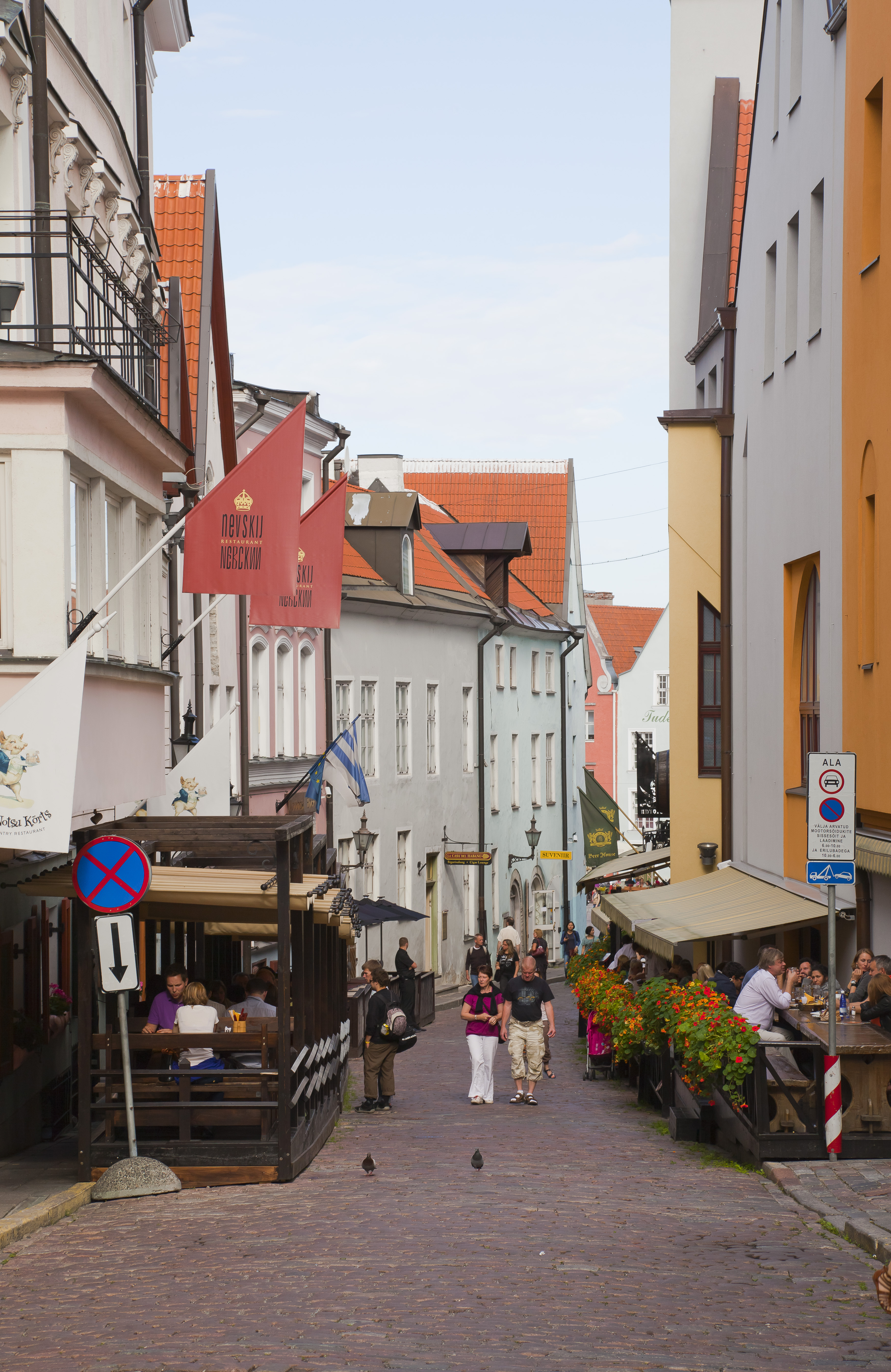 Dunkri Street, Tallinn, Estonia